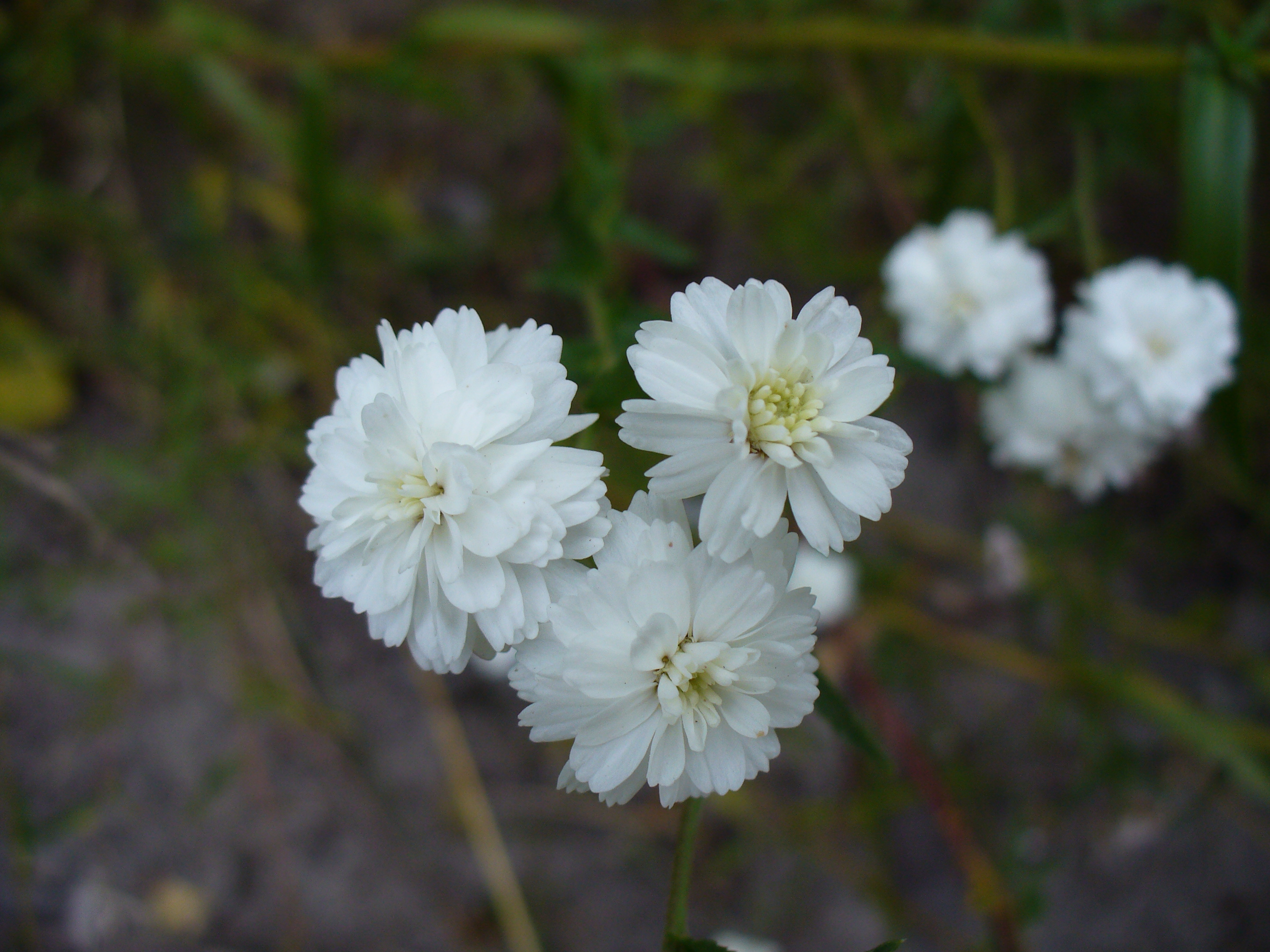 I am the originator of this photo. I hold the copyright. I release it to the public domain. This photo depicts flowers, probably of a double-flowered cultivar of sneezewort, Achillea ptarmica.